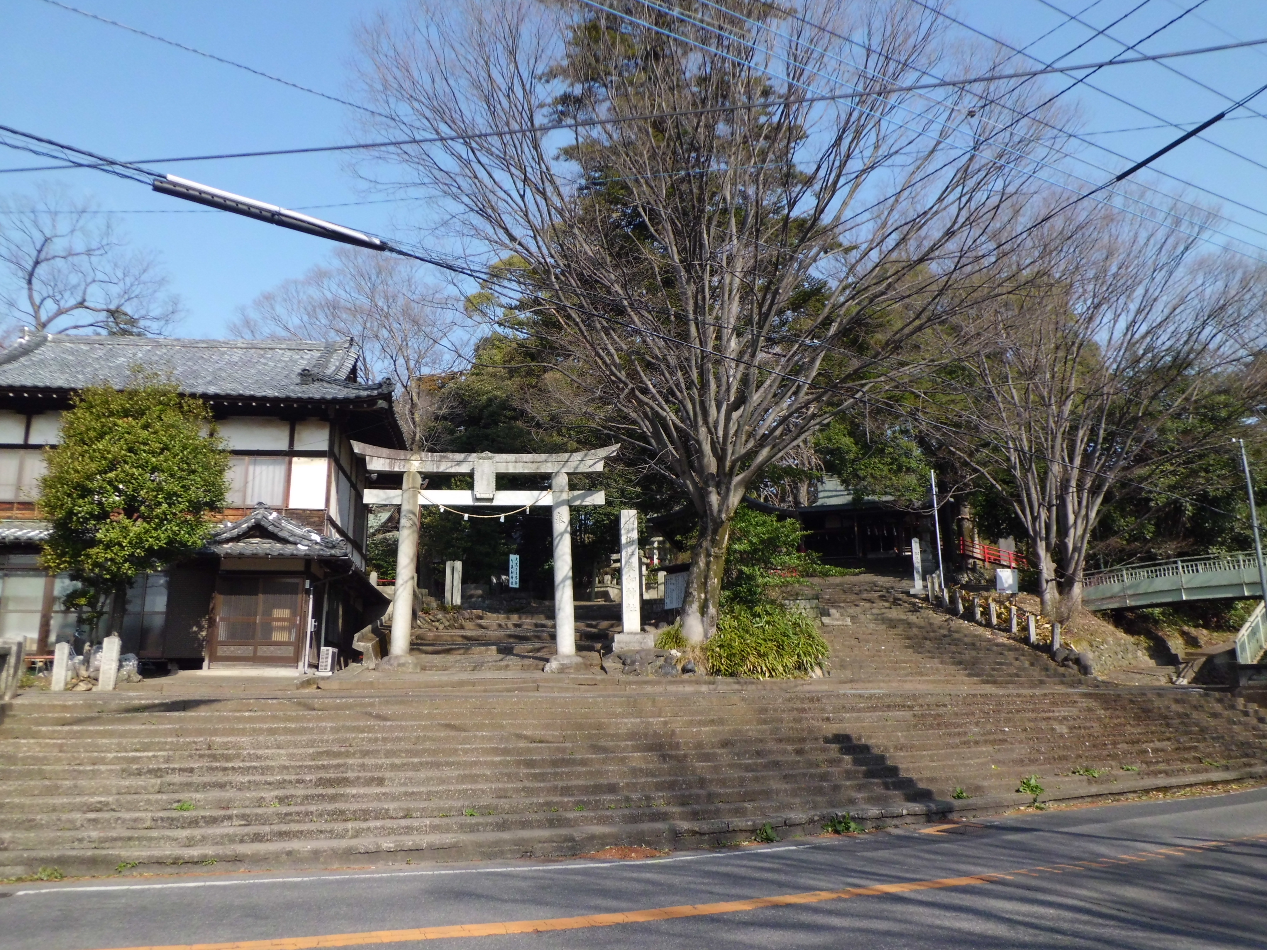 A gate of Miwa Shrine and Nishinomiya Shrine in Kiryu city, Gunma prefecture, Japan.